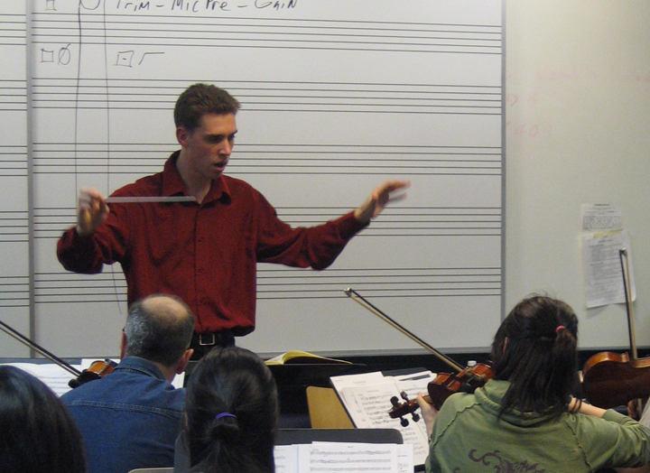 Jérôme Leroy directing a Berklee orchestra.